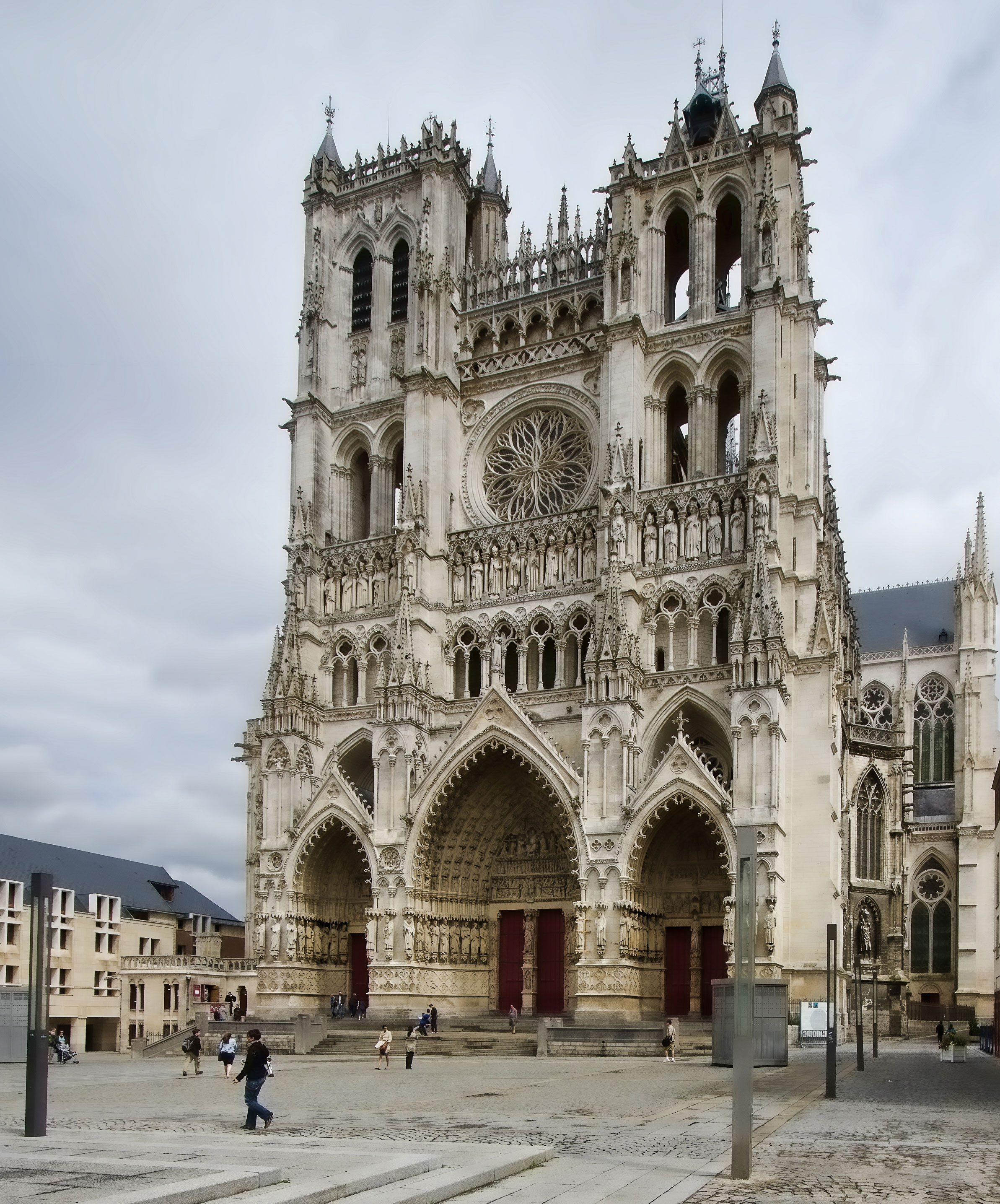 Edited version of File:Church in Amiens.jpg